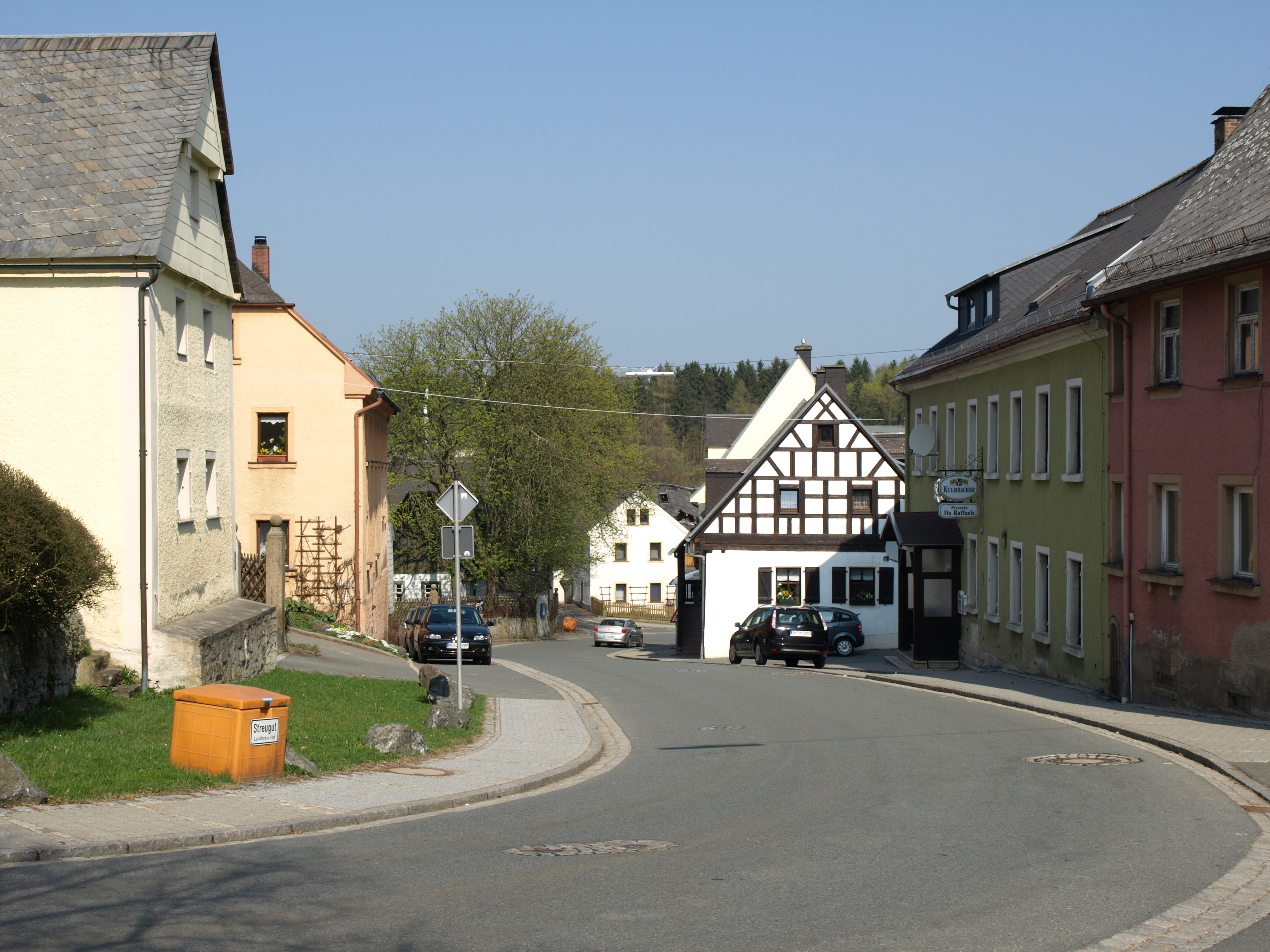 The Hauptstrasse in Regnitzlosau.